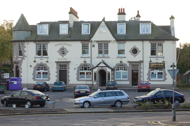 The Goth The Gothenburg Hotel Rosyth. NT3874